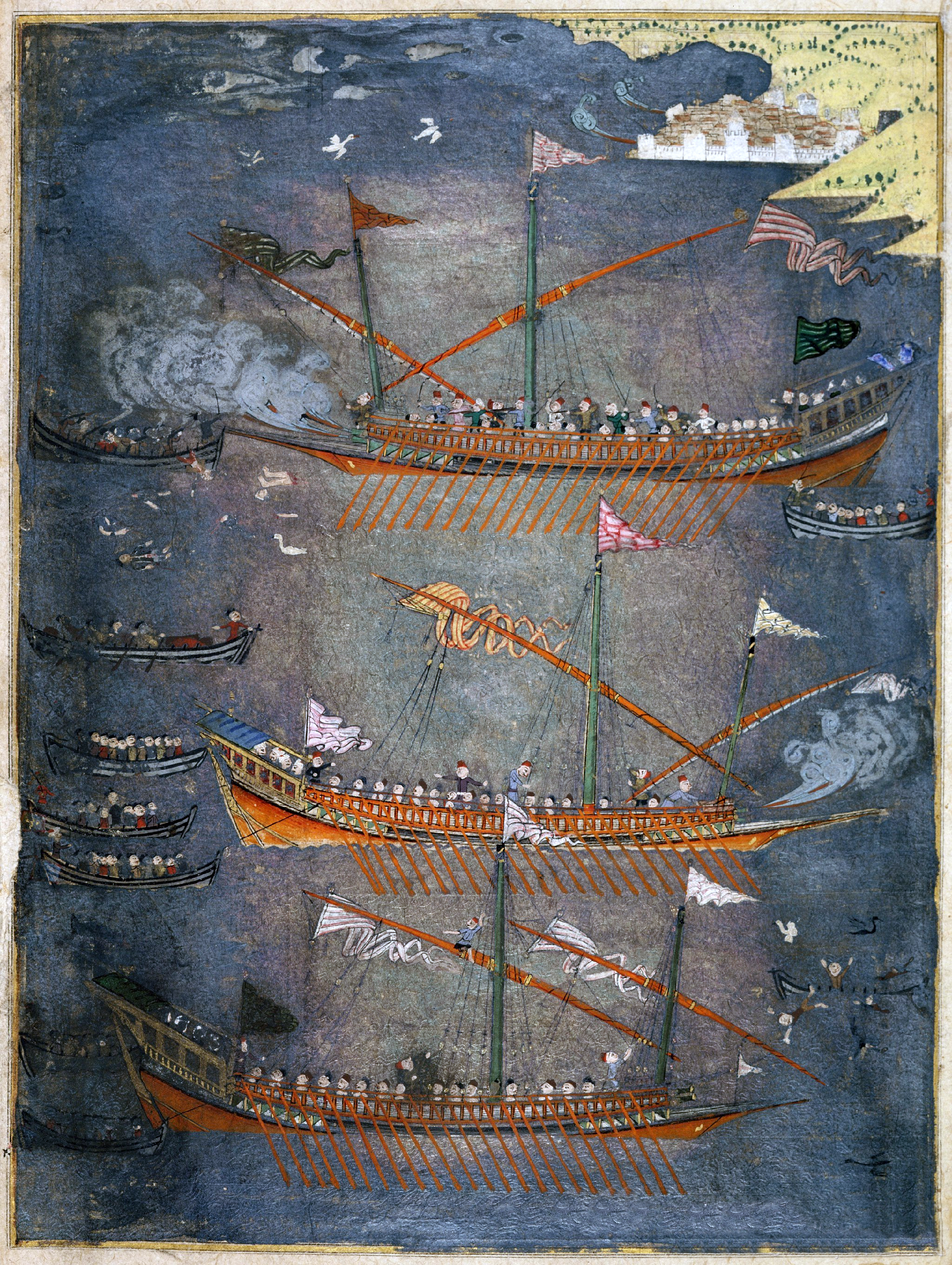 Zaporozhian Cossacks in chaika boats attacking Turkish galleys in the Black Sea. Original held in British Library, London. Original title: Sloane 3584 f.78v Turkish galleys in battle, c.1636